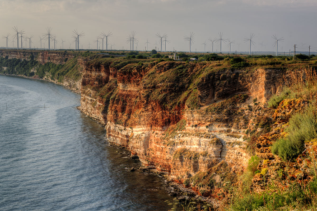 Sunset over Kaliakra